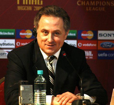 Vitaly Mutko